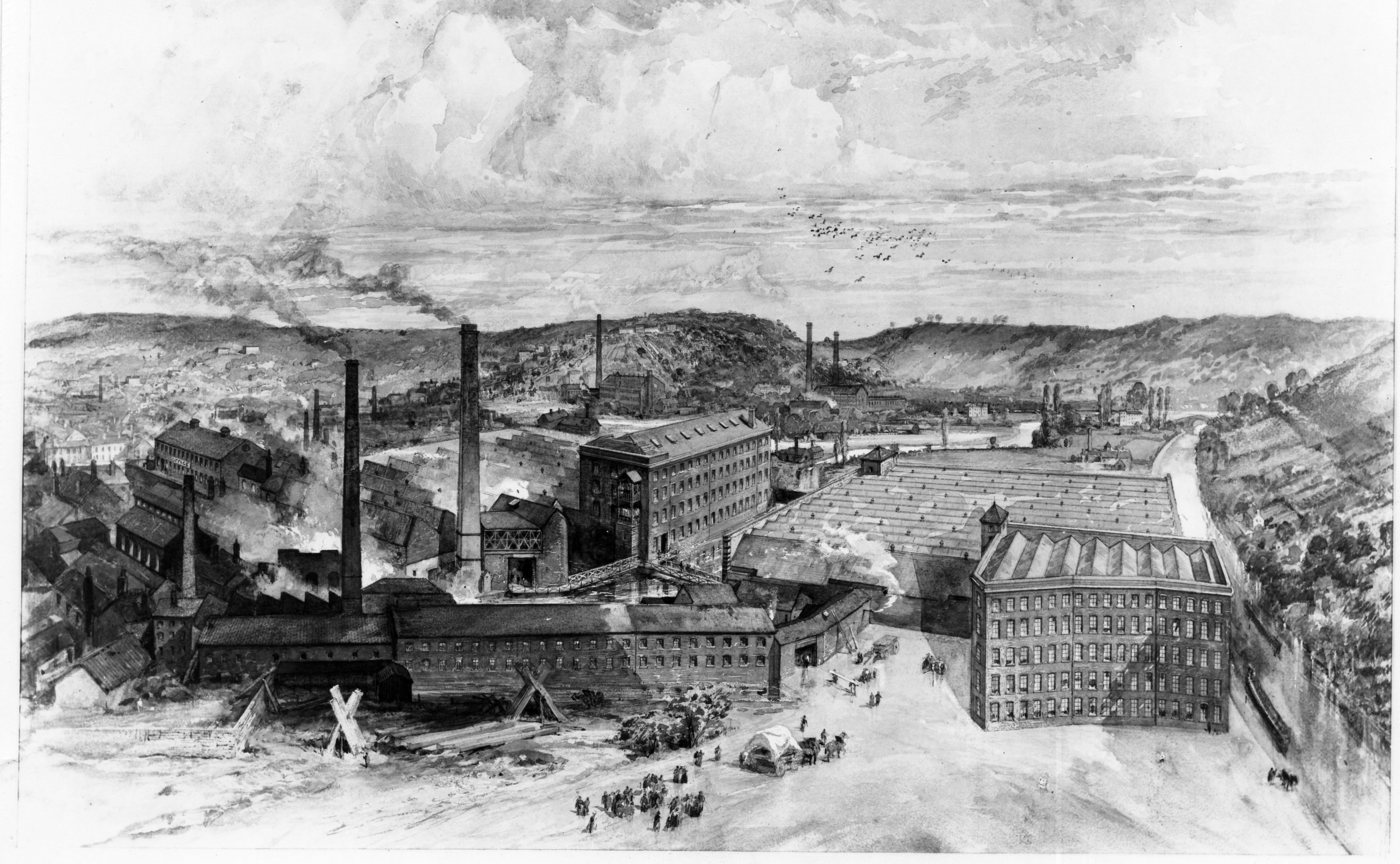 Image of Brintons factory, Kidderminster, circa 1870